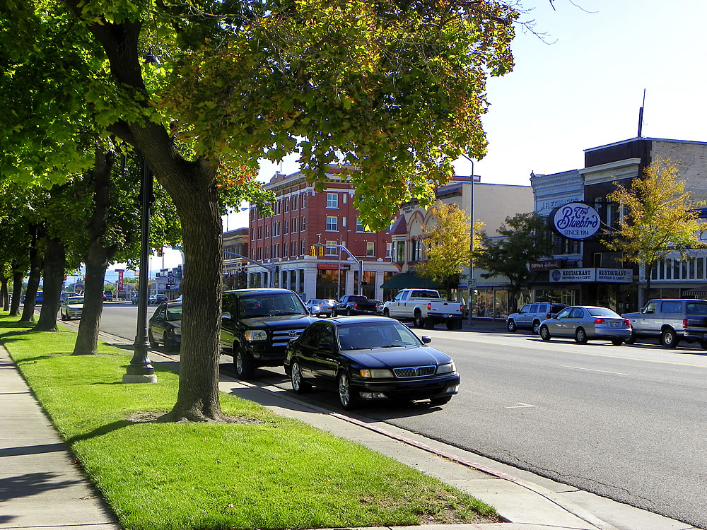 A look down Main Street in downtown Logan, Utah